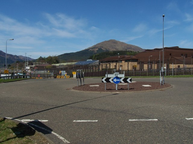 Coulport Roundabout. and entrance to Coulport M.O.D. Base